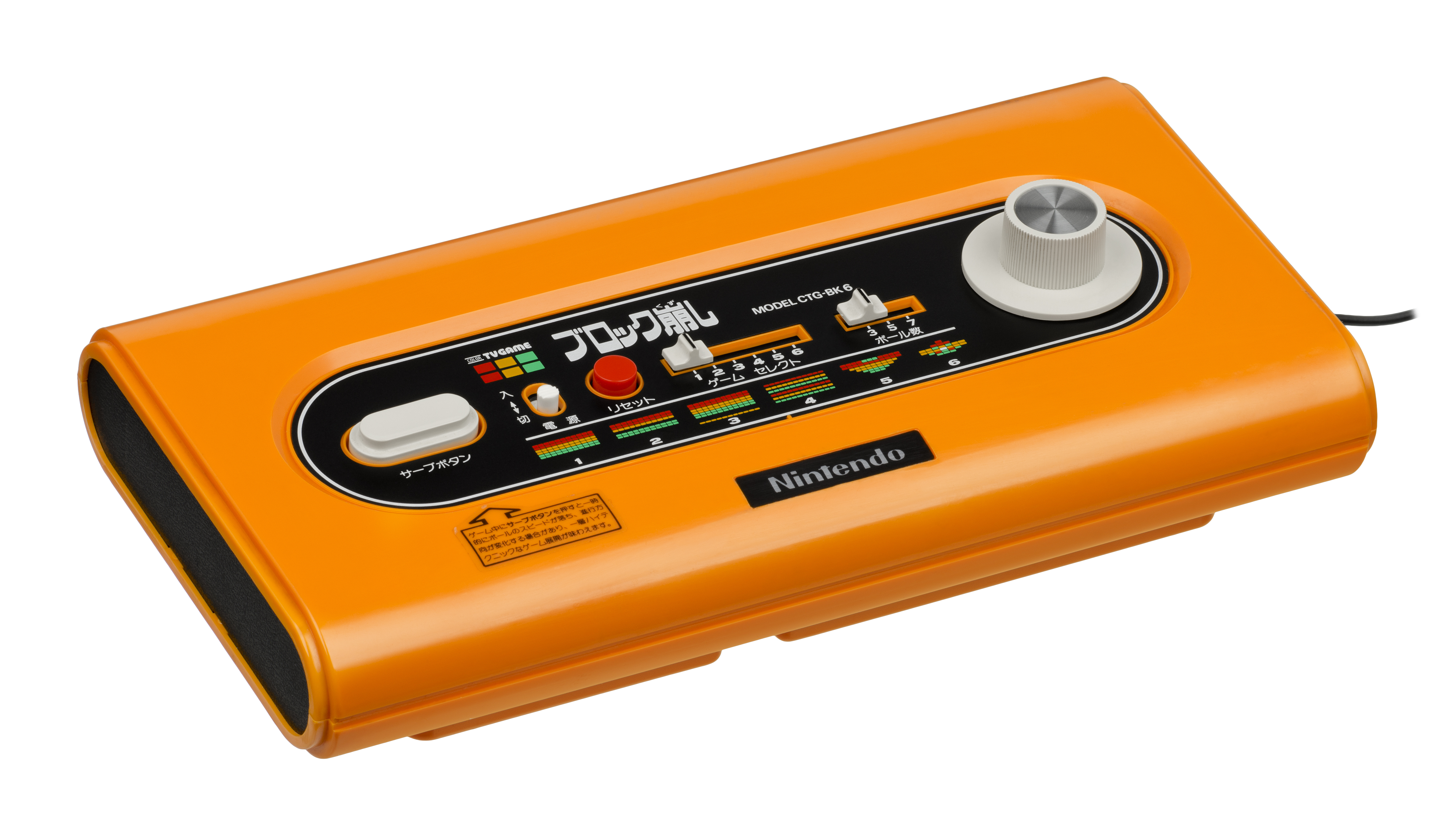 The Nintendo Color TV Games Blockbreaker (Karā Terebi-Gēmu Burokku Kuzushi), a dedicated game system that plays a Breakout copycat. Released in Japan in 1979, the model number is CTG-BK6.